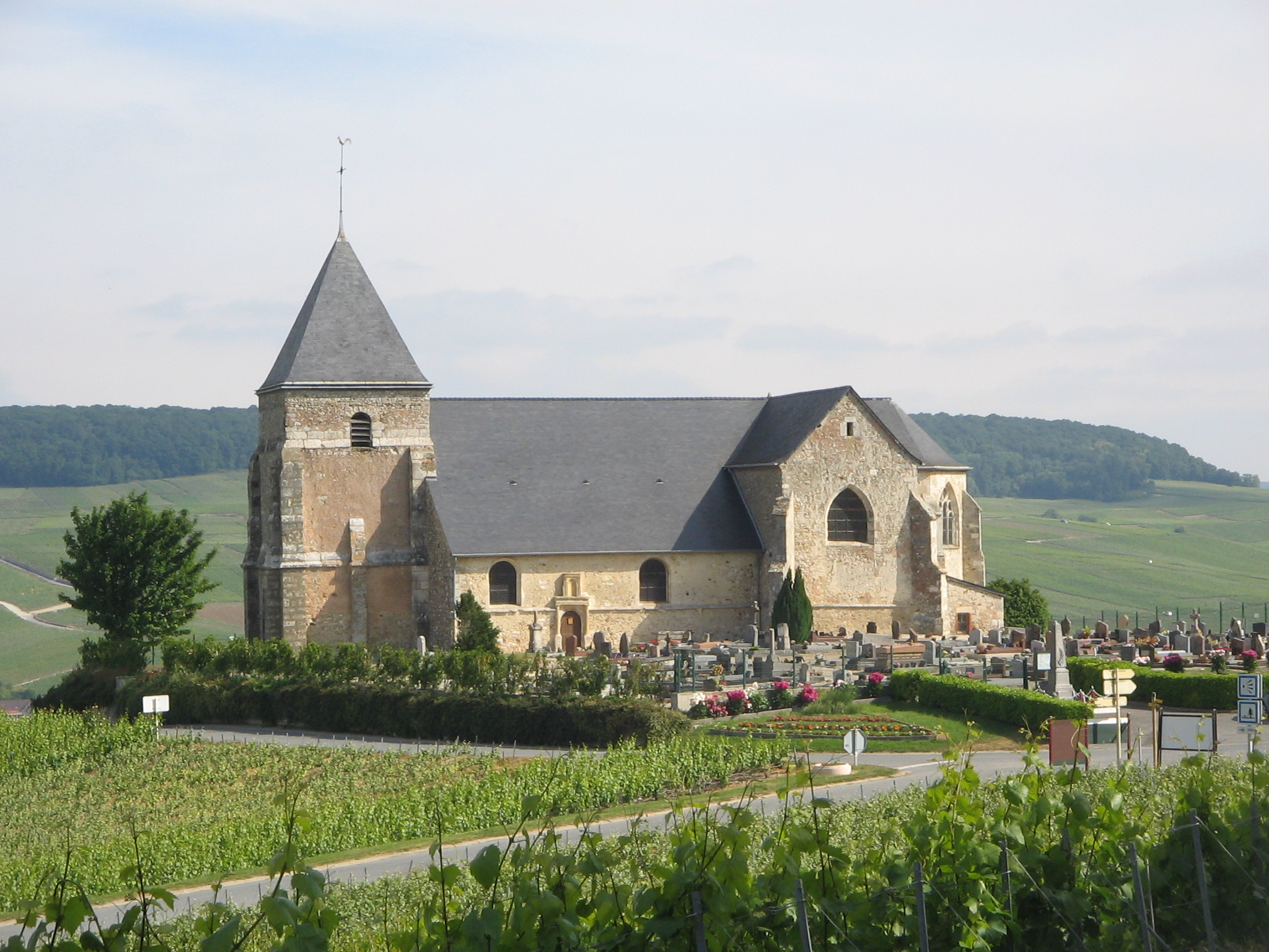 The church of Chavot